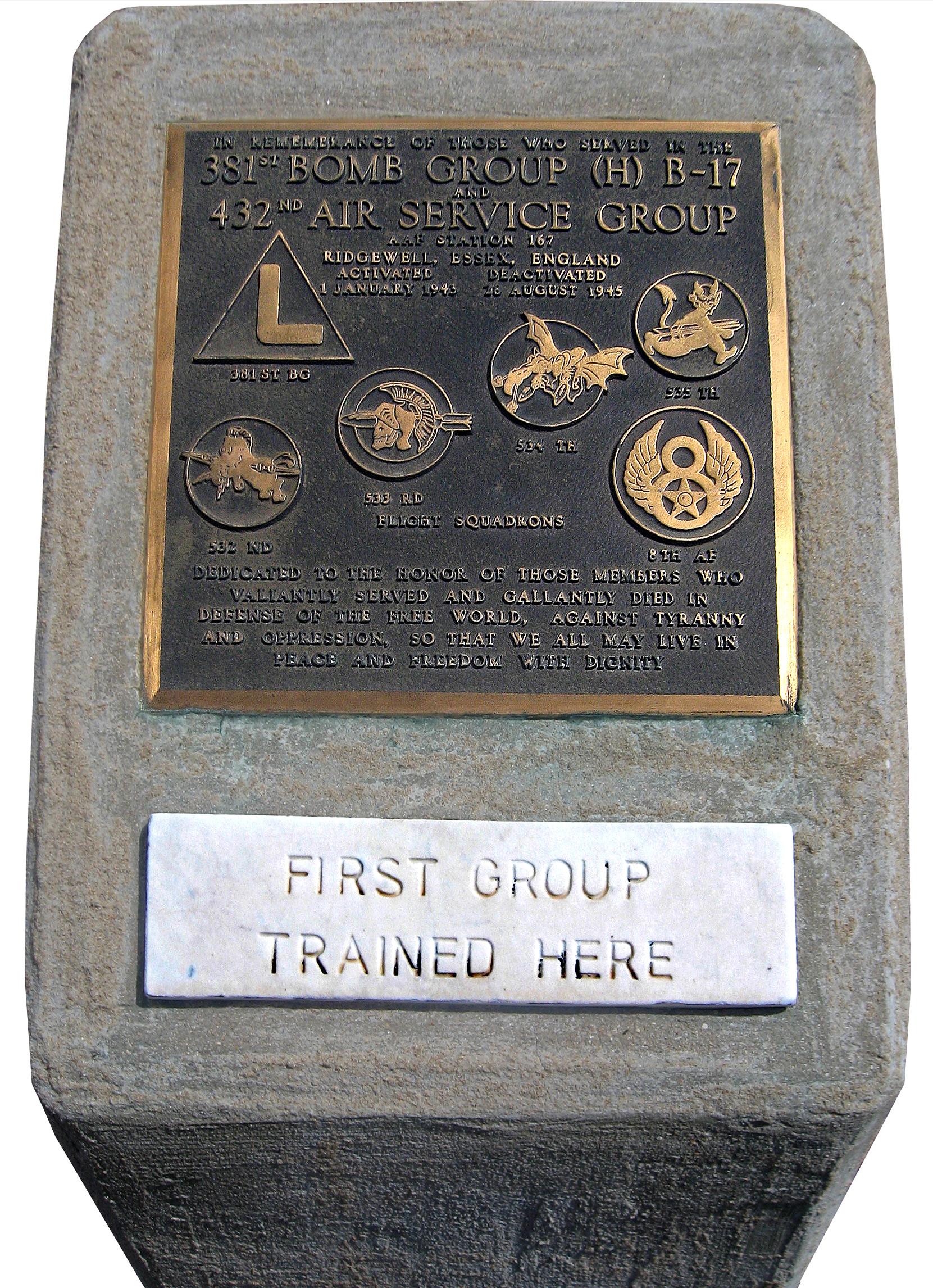 In remembrance of those who served in the 381st bomb group (H) B-17 and 432nd air service group Ridgewell, Essex, England Activated Deactivated 1 January 1943 28 August 1945